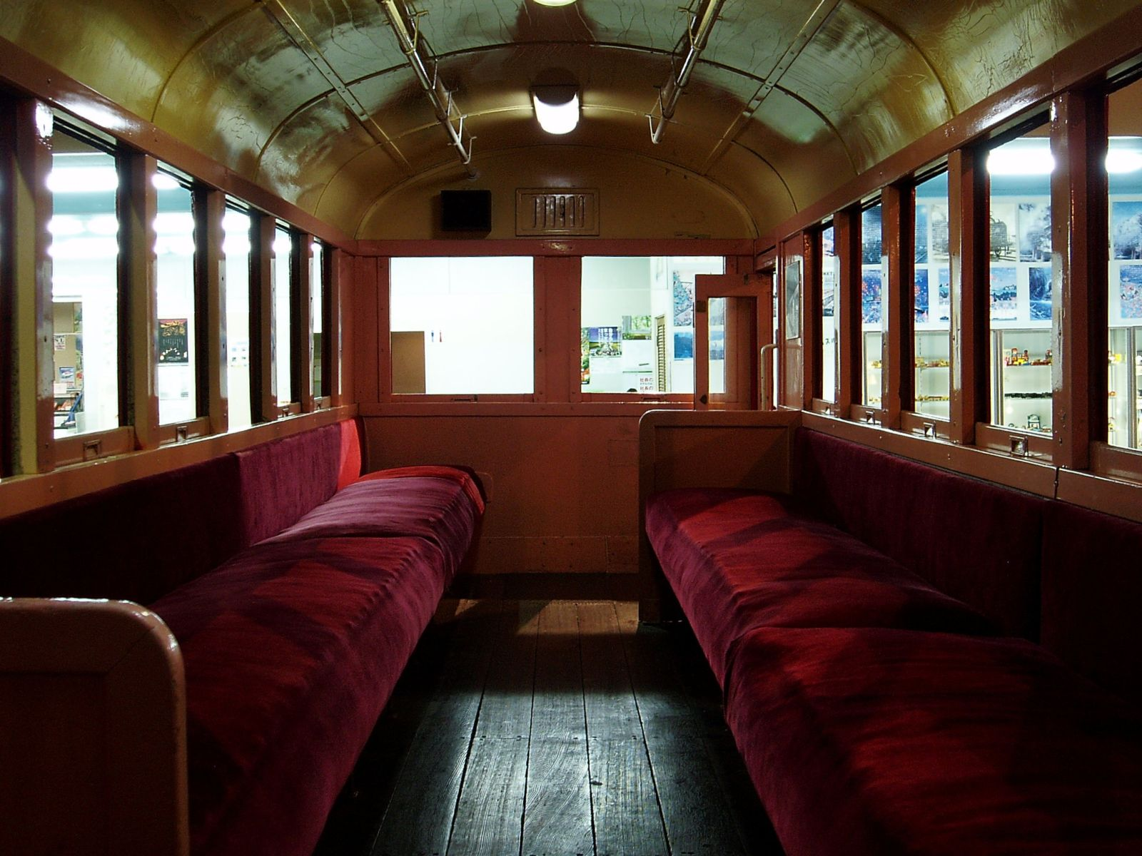 Inside of Oigawa Railway type Surofu1.